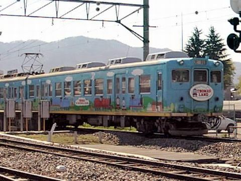 Fujikyuko Co., EMU type 5000